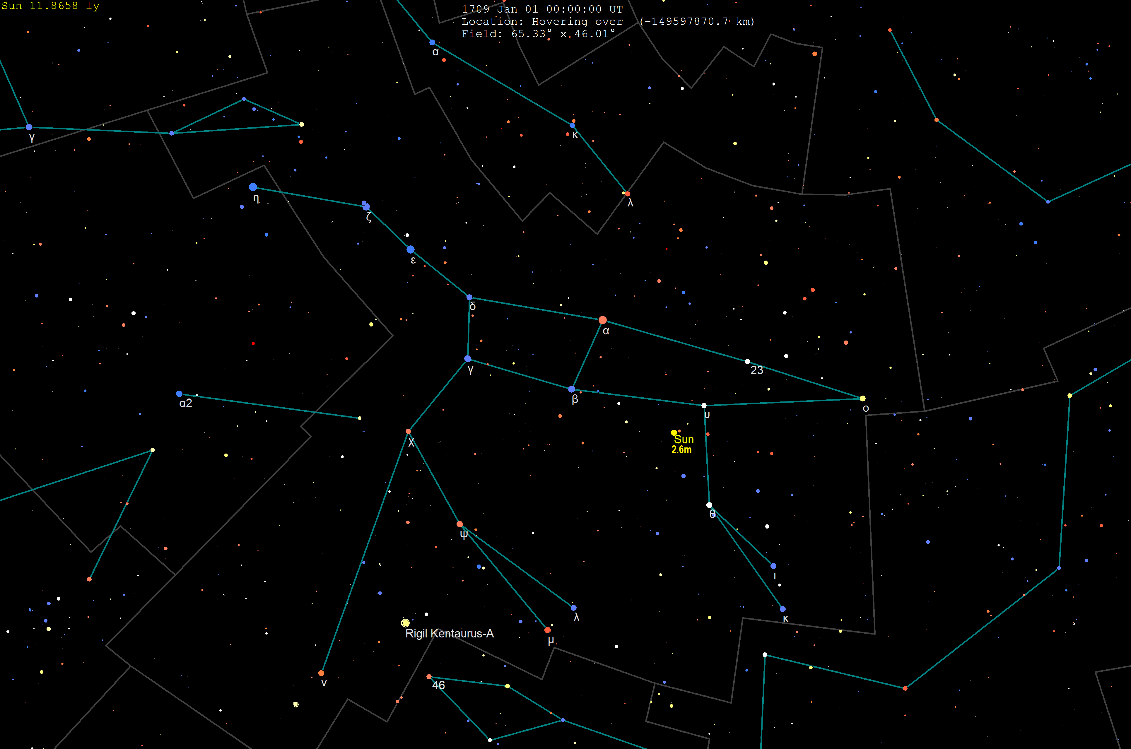 Position of Sun and Rigil Kent from Epsilon Indi